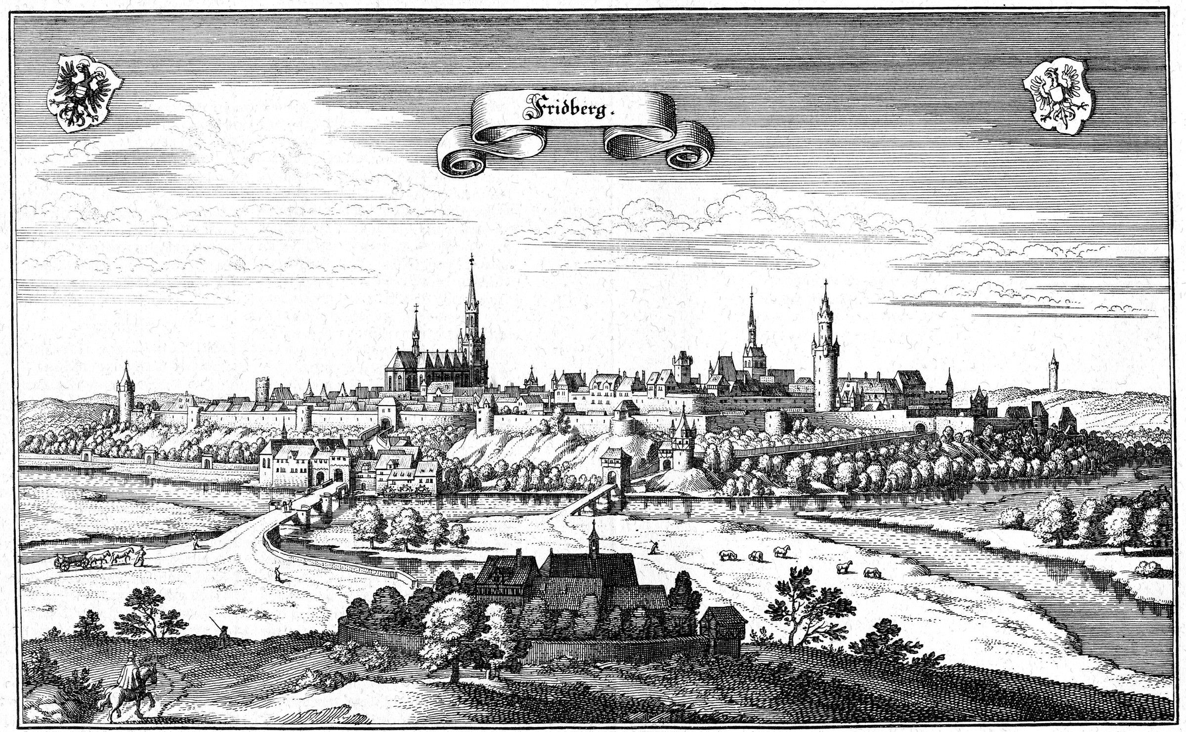 This is a scan of the historical document: Title: Friedberg - Topographia Hassiae language: german